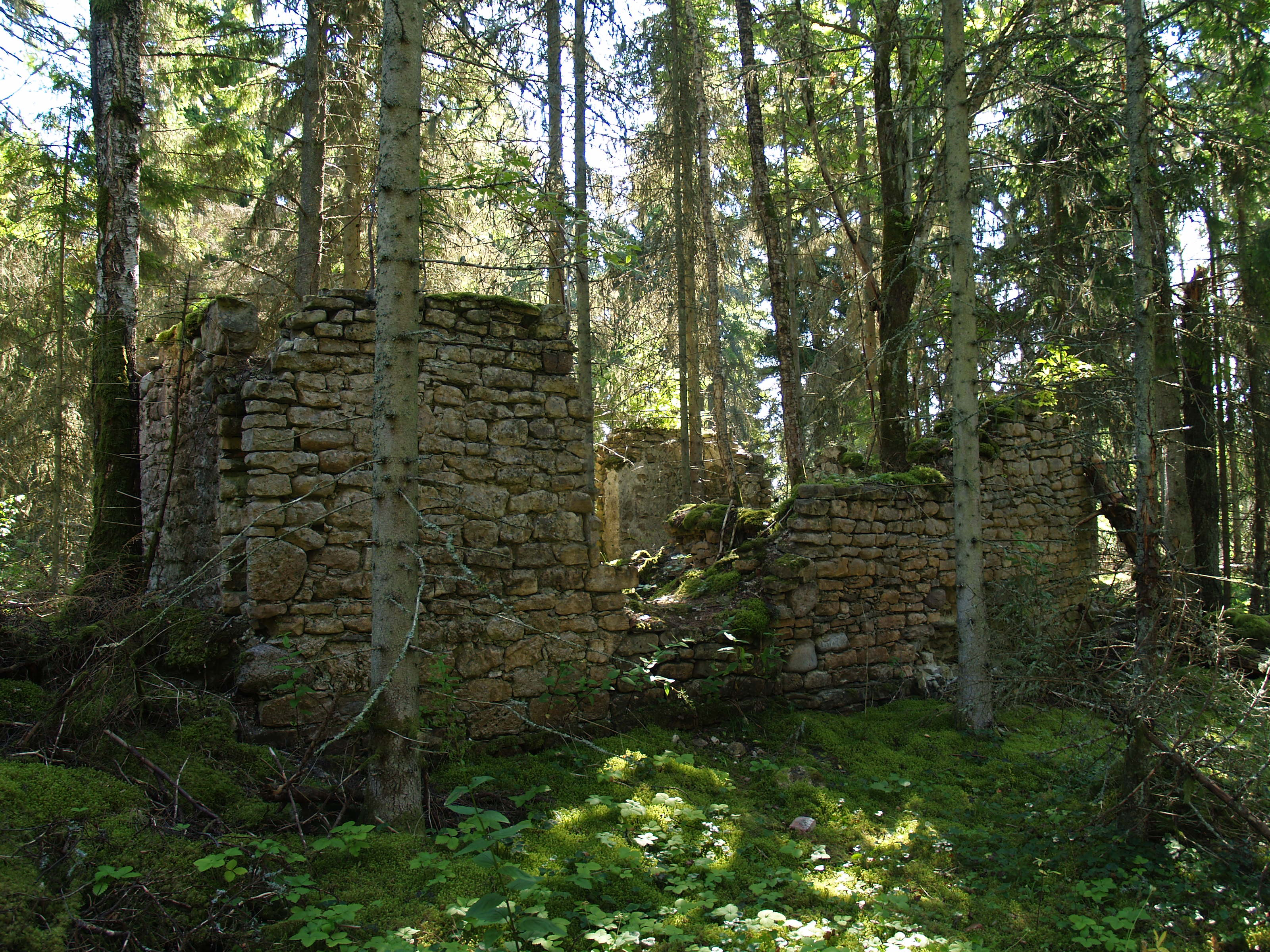 Remains of (dairy)manor founded by Jacob Friedrich von Helwing in 1807. Limestone for building were taken just some meetres away from the manor itself.